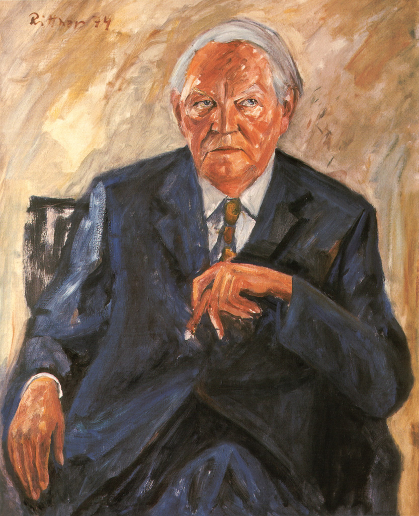 Ludwig Erhard, German Chancellery Berlin, Gallery of Chancellors